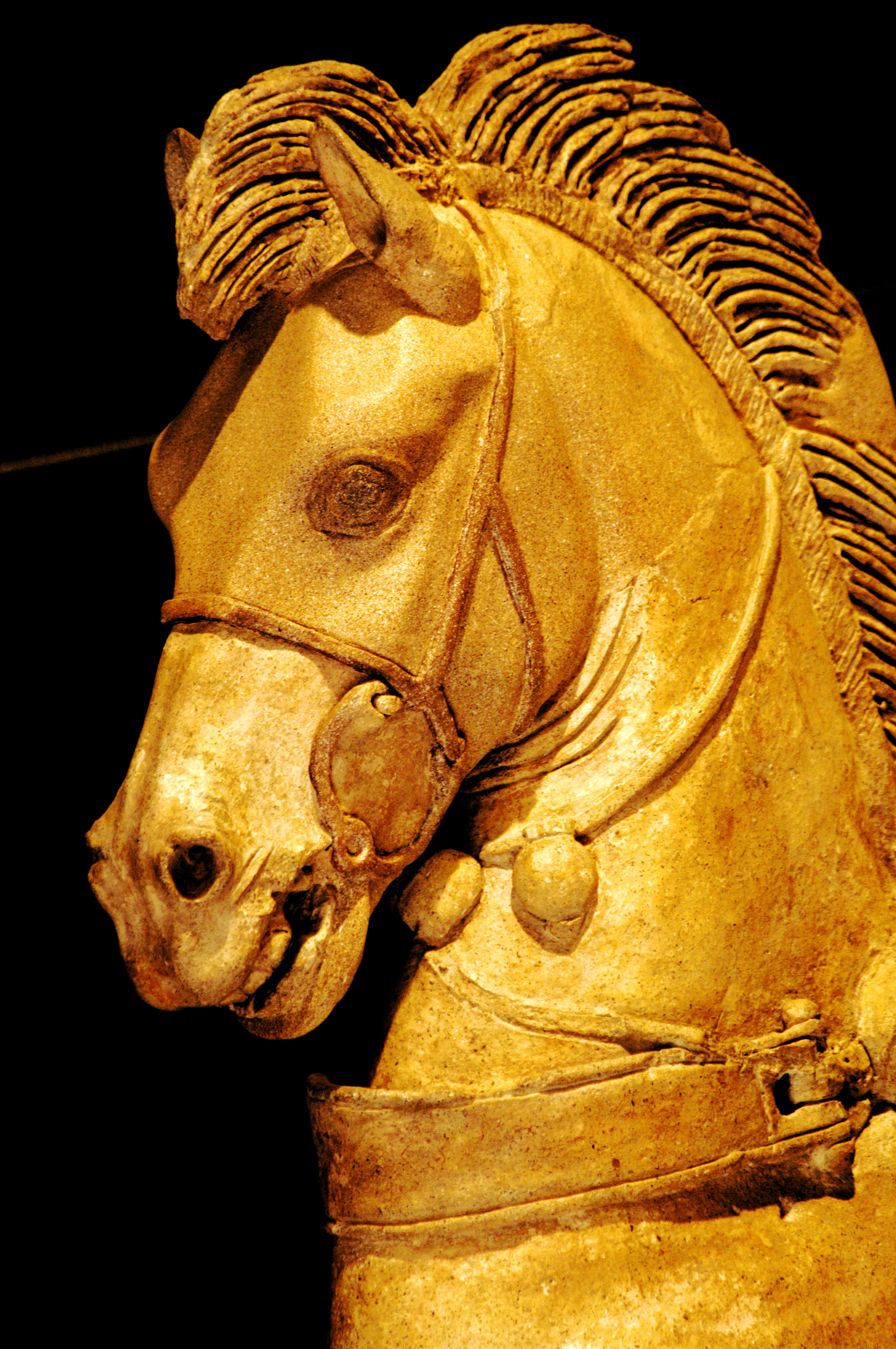 [Palazzo Vitelleschi] [Tarquinia], Viterbo VT, Italy Cavalli alati bardati, scultura etrusca ellenistica, dettaglio testa, Tarquinia.jpg photo Paolo Villa VR 2016 [Archeological] [etruscan] [horses] copyright: For see what there is it near and possible details and view copy and paste "File:Photo Paolo Villa VR 2016 (VT)" at search